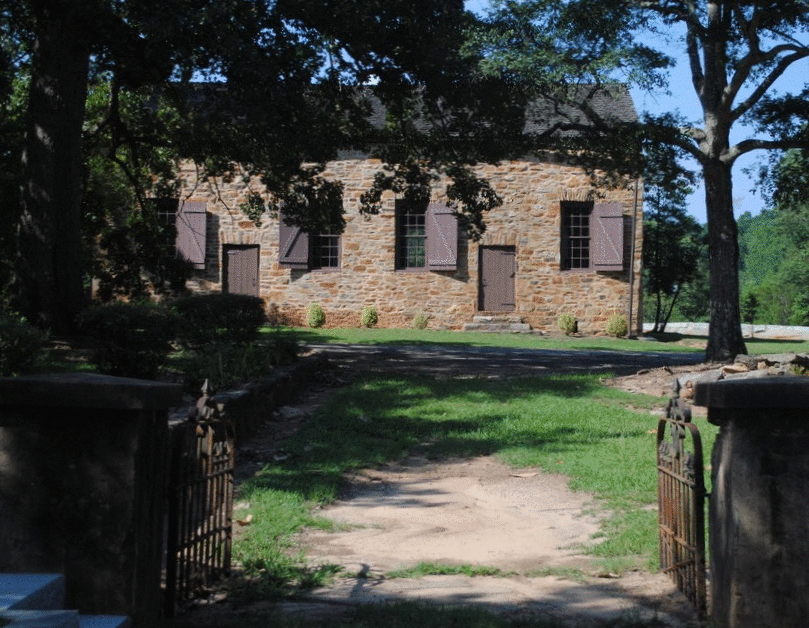 Photo of Old Stone Church viewed from the cemetery in 2016